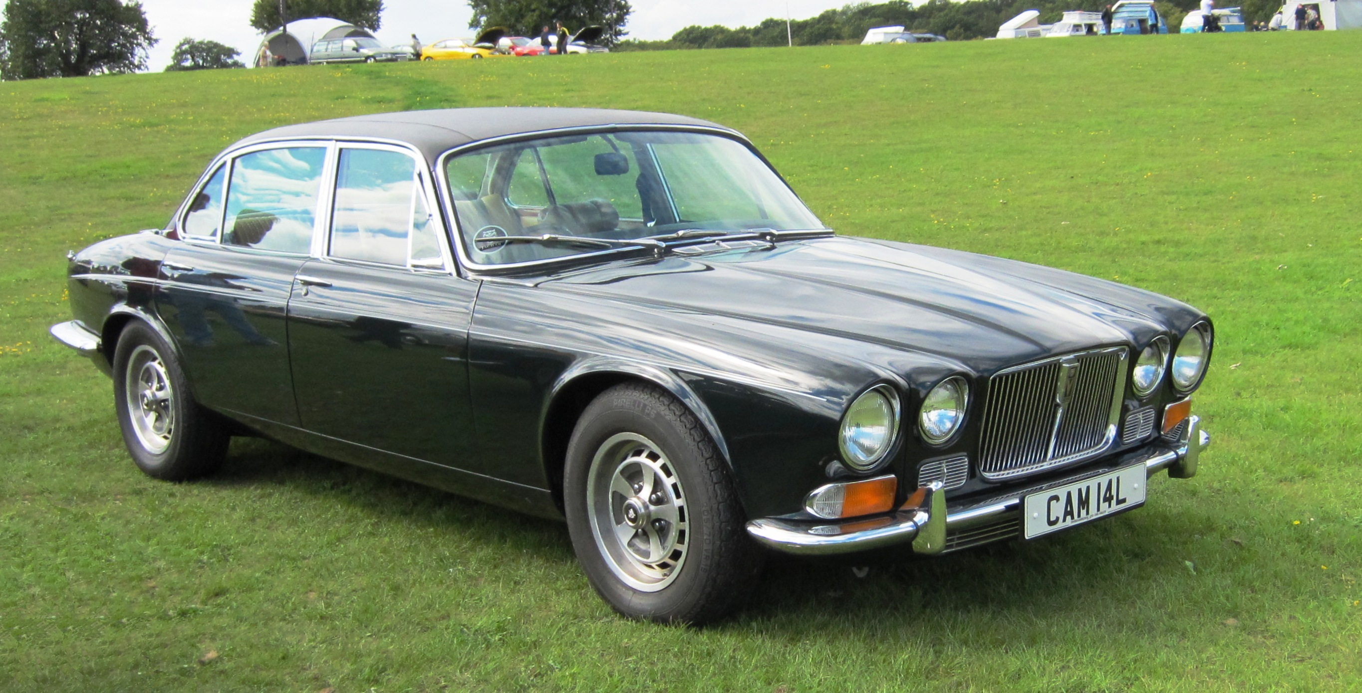 Jaguar XJ12 - one of the very early ones - in Hertfordshire